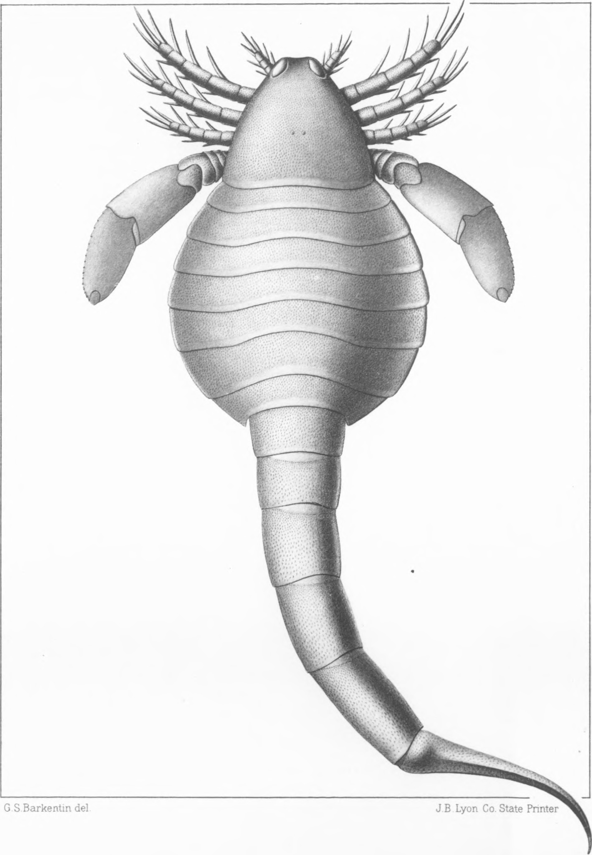 Paracarcinosoma (Eusarcus) scorpionis. The Eurypterida of New York. Volume 2. New York State Museum Memoir 14, plate 27